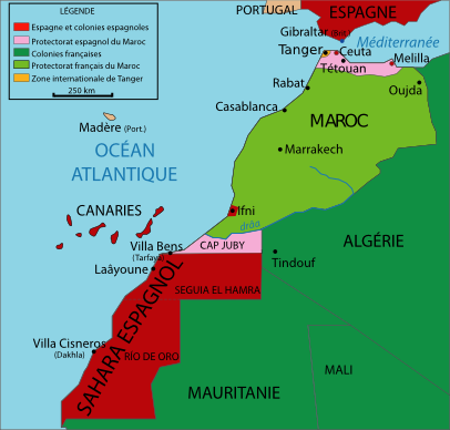 marocco Protectorate In 1912 own work inspired from Jean Sellier the, Atlas des peuples d'Afrique,p 84. Protectorat marocain Protectorado maroqui A French SVG version is available Image:Maroc sans cadre.svg A English SVG version is available Image:Morocco Protectorate.svg